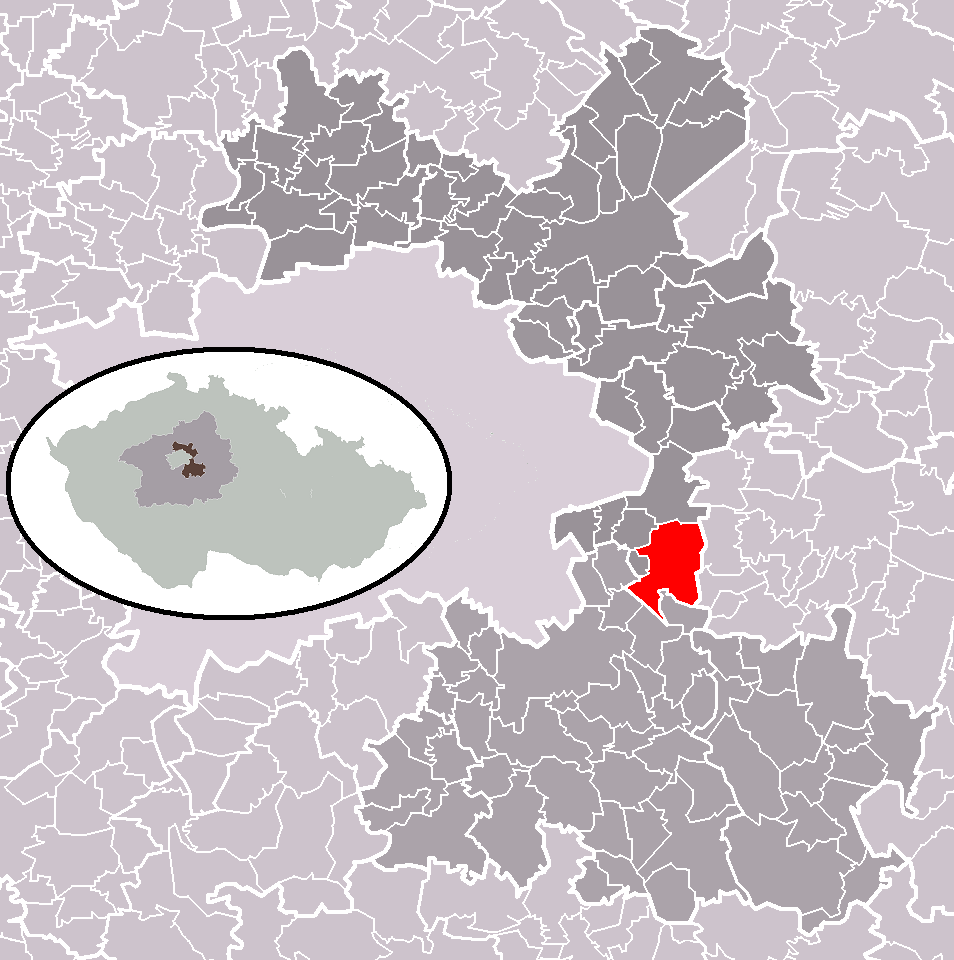 Location of Škvorec market town within Prague-East District and administrative area of Brandýs nad Labem-Stará Boleslav as a Municipality with Extended Competence.